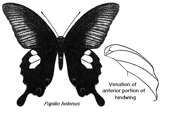 Red Helen